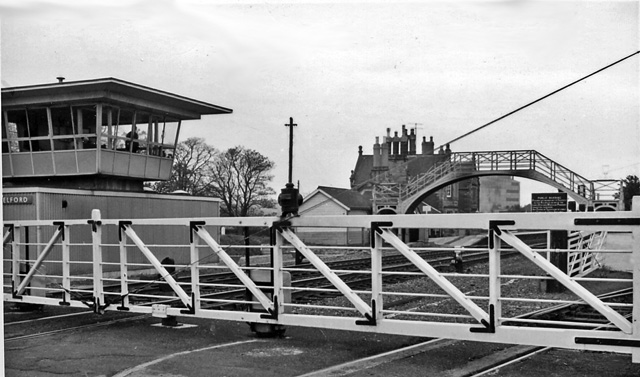 Belford Station. View northward, towards Berwick; ex-NER East Coast Main line, Newcastle - Berwick-on-Tweed - Edinburgh. This station was closed 29/1/68, but it is to be reopened to serve Holy Island tourists. (See also Beal NU0642 : Beal Station. (The signalbox, new at the time, contrasts with the characteristic architecture of the station).